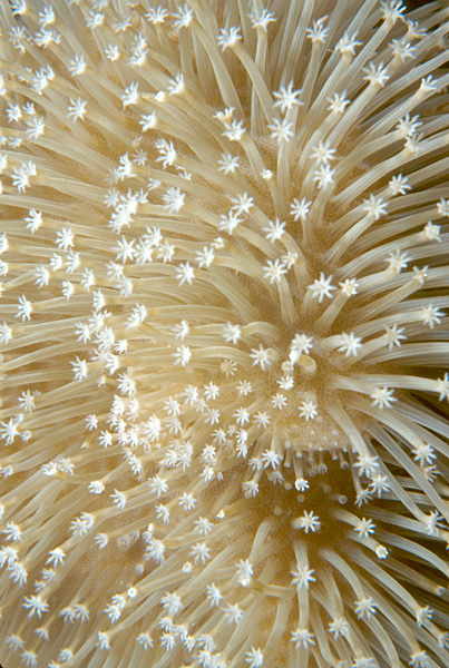 Leather coral (Alcyoniidae)